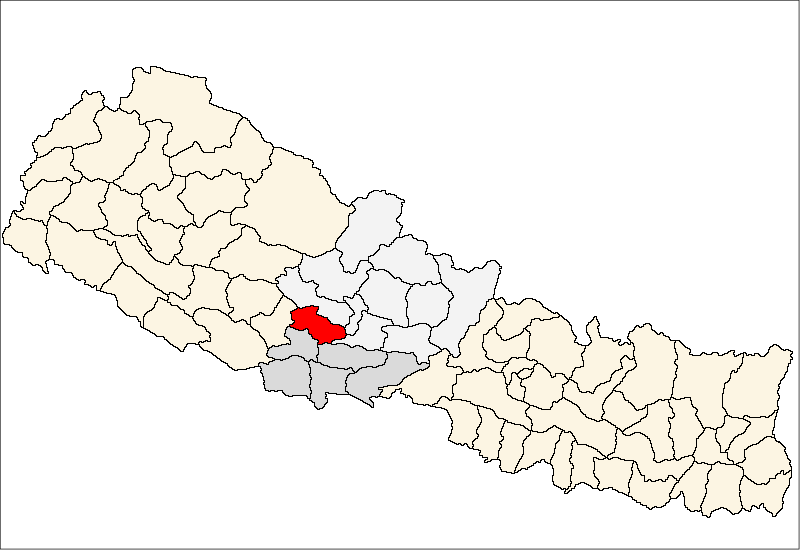 FrenchCarte de localisation dudistrict de Gulmi(wp-FR),au Népal (wp-FR).EnglishLocation map ofGulmi District(wp-EN),in Nepal (wp-EN).